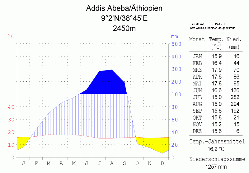 climate chart in the format by Walther and Lieth